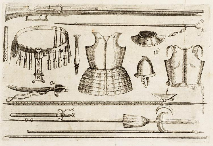 Early seventeenth century infantry equipment, as used during the Eighty Years' War